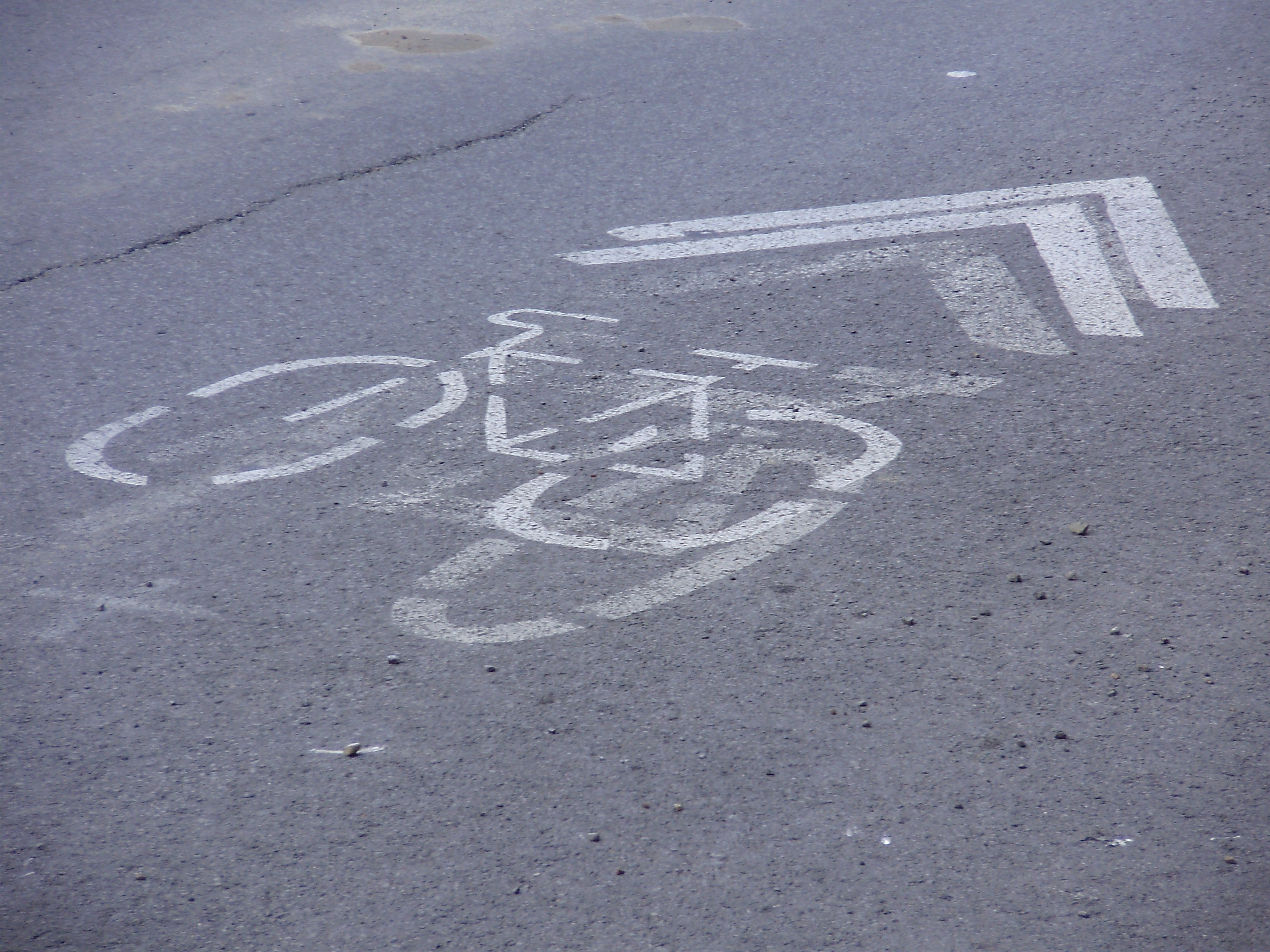 A bicycle path indicator on de Verdun Street (Rue de Verdun) in Montreal, Quebec, Canada.